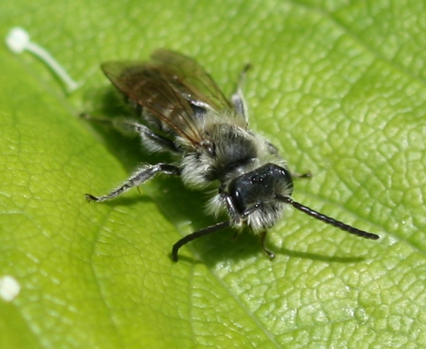 Possibly Andrena barbilabris male in Long Marston, Yorkshire, England